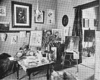 Oakland Female Seminary art room